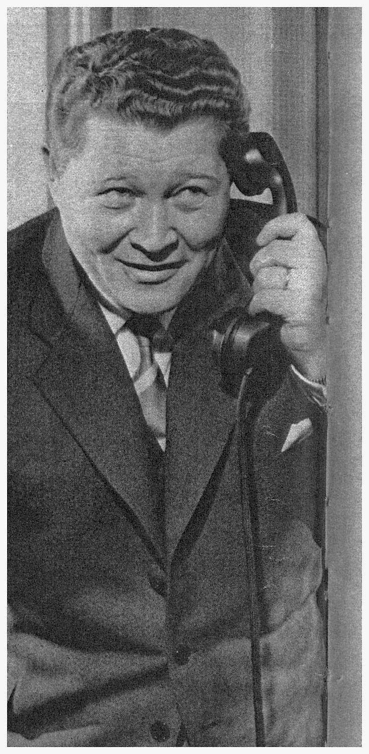 Photograph of the Finnish politician Vilho Väyrynen (1912–2000).